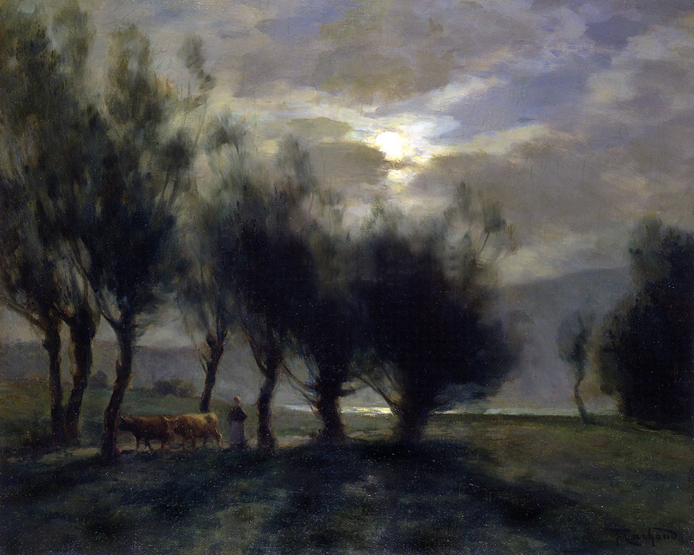 Heading Home